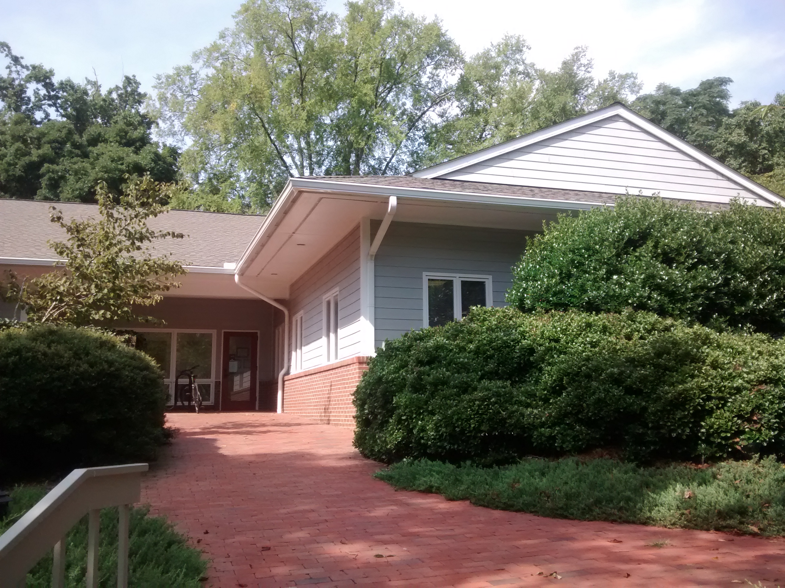 Brooks Hall, location of the University of North Carolina Press.